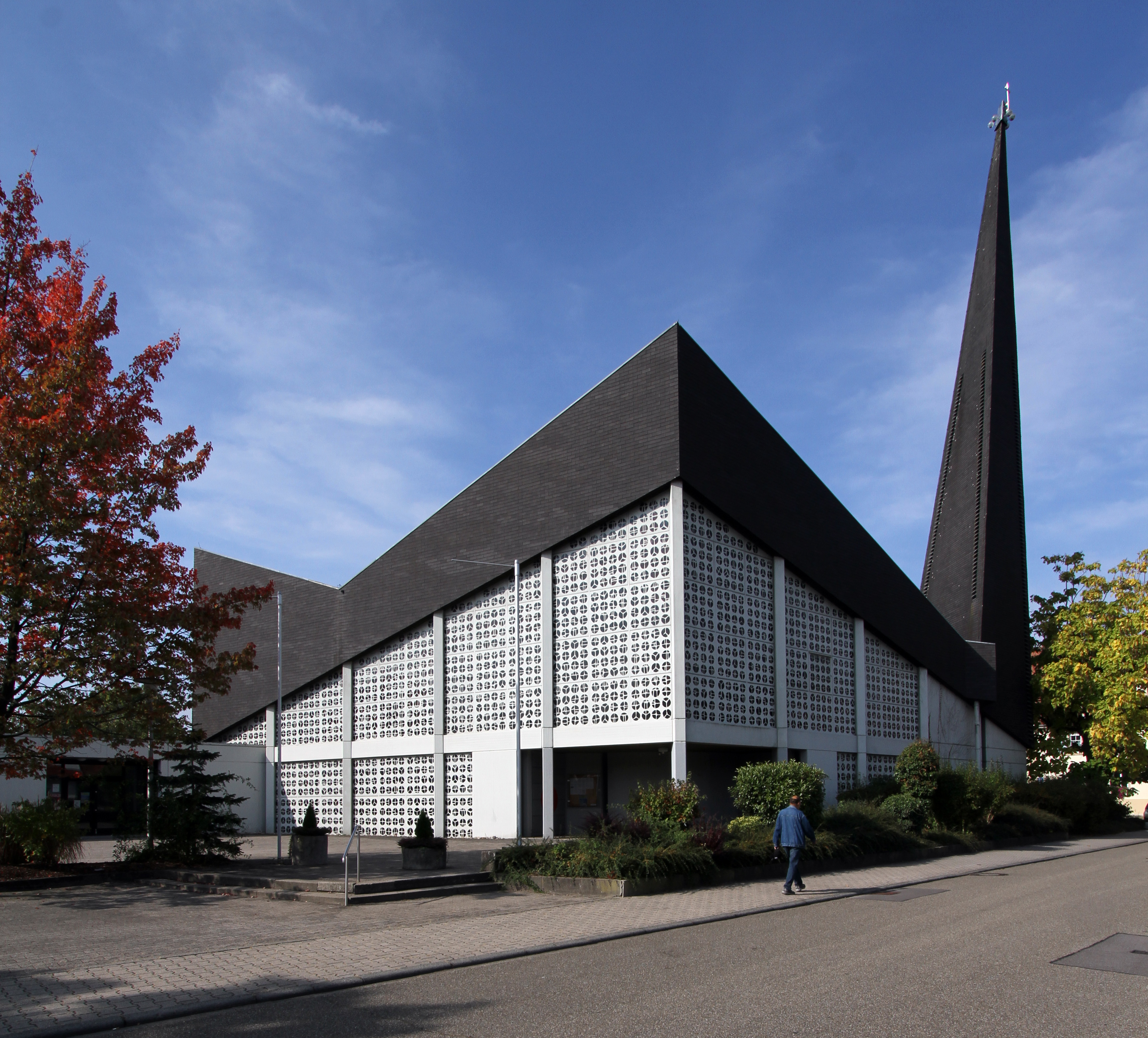 Church of Saint Lawrence in Rastatt-Niederbühl.